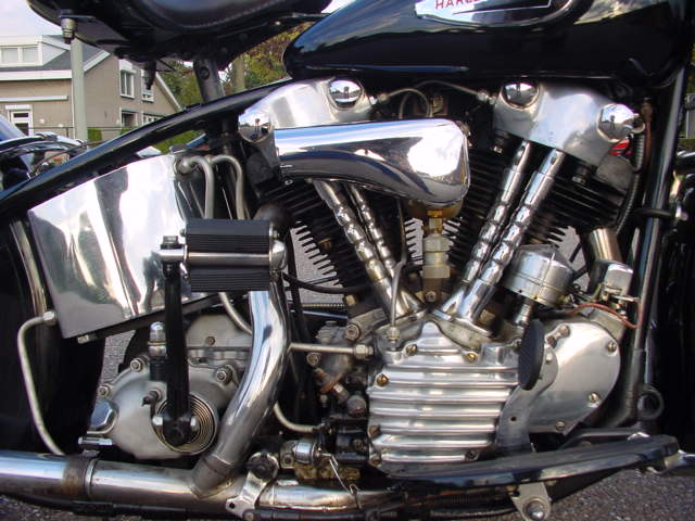 1940 Harley-Davidson EL, Knucklehead engine.